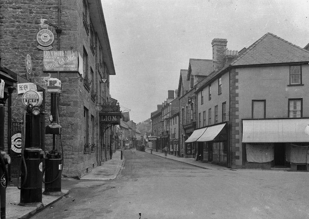 Abstract: Broad street, Builth Wells